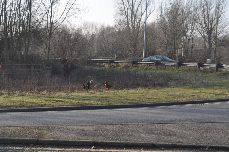 Chicken Roundabout. Several locals look for earthworm Jim. 1714813